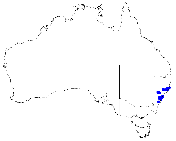 Boronia mollis occurrence data downloaded from Australasian Virtual Herbarium 10 April 2019 using This download included all the environmental overlay fields and ALA's data checking fields including "cultivated / escapee", "outside expert range for species", "latitude is negated", "coordinates are transposed", "taxon misidentified", "habitat incorrect for species", and "suspected outlier" (711 fields). Deleting occurrences for which any of the above were true, 46 specimens with coordinates were deleted. However this did not remove all obvious spatial outliers some of which were later removed by hand. On inspection of the interactive AVH map, the following specimen was removed: NSW 467639 ("suspected outlier")